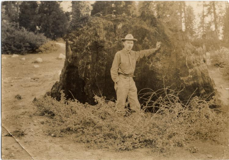 Identified in Yale photographic archives as "probably Ellsworth Huntington at Mill Spring, California." The photograph probably shows Huntington at the site of the Mill Spring, California, tree ring study. Photograph courtesy of the Yale University Manuscripts & Archives Digital Images Database.